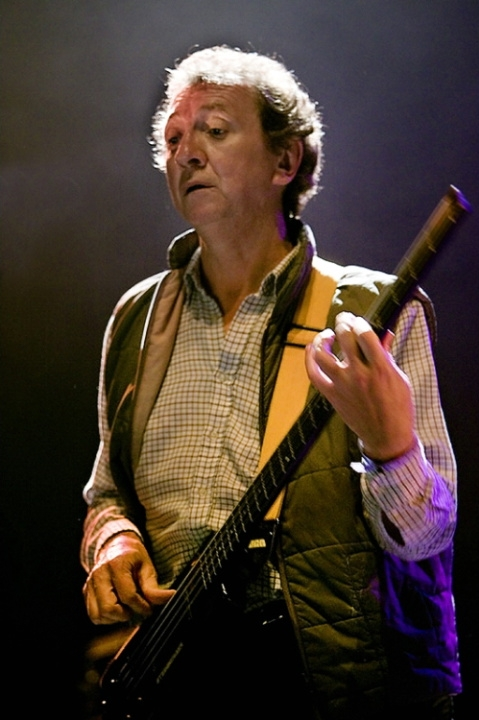 John Greaves with the Peter Blegvad Trio performing at a Rock in Opposition Festival in Southern France, April 2007.